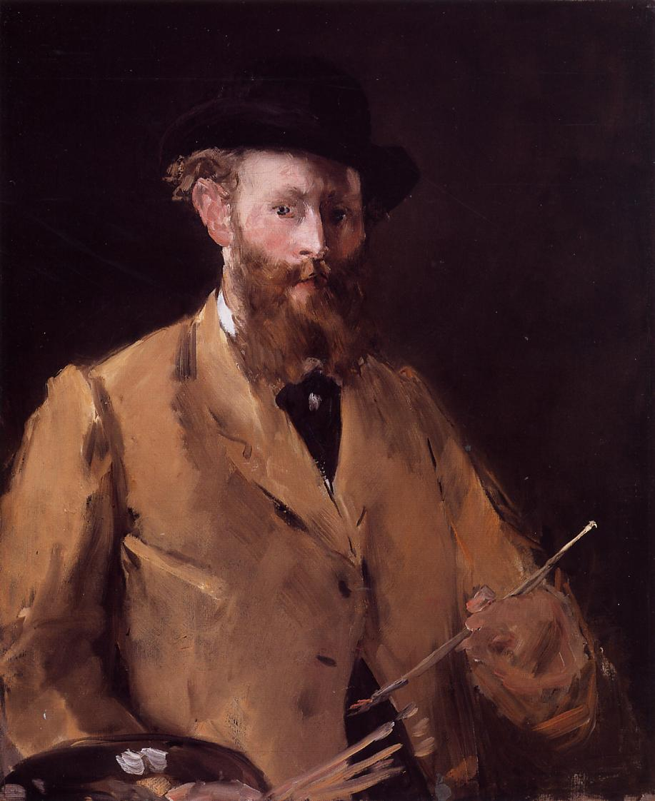 Self-Portrait with Palette